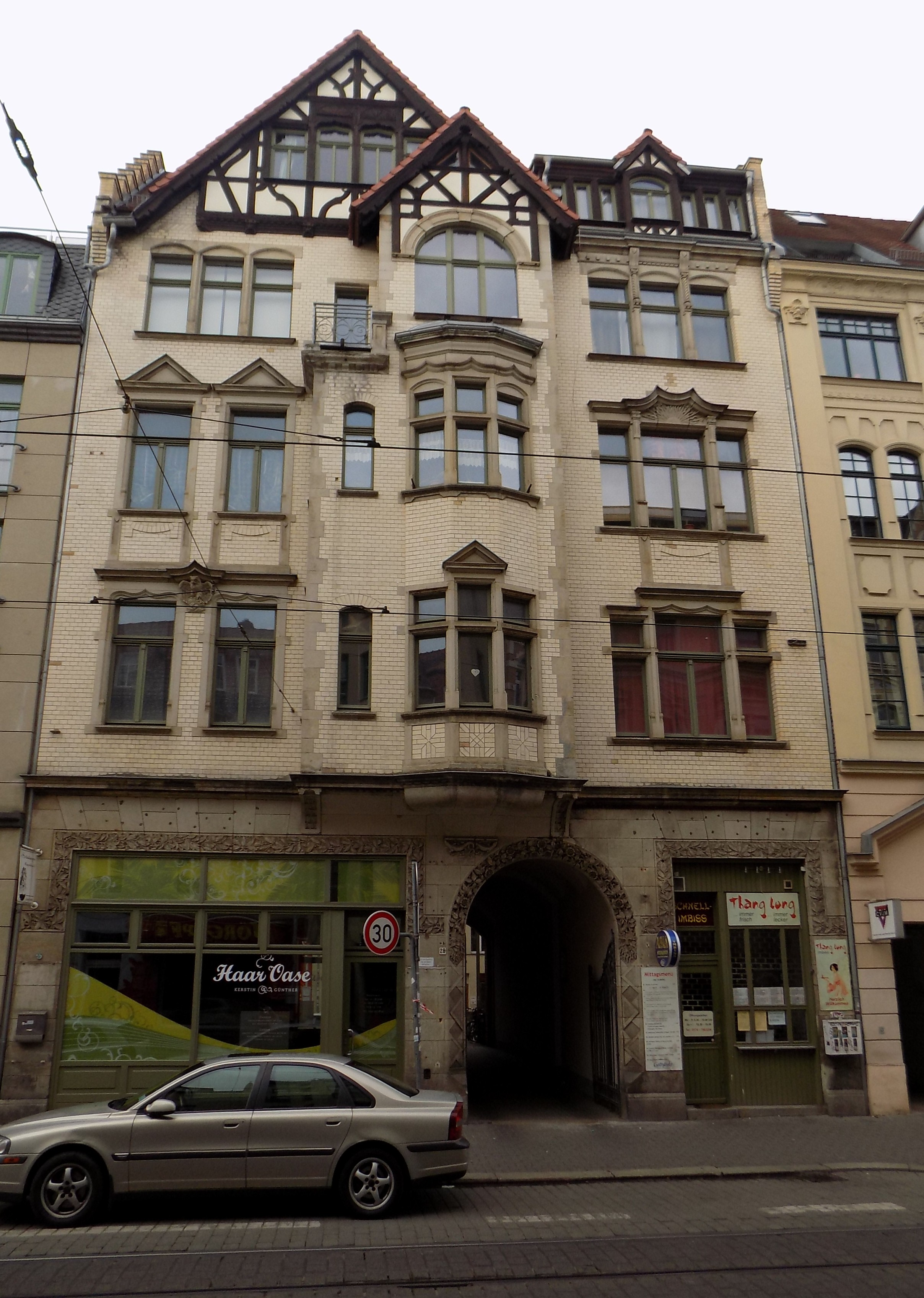 No. 28, Geiststrasse in Halle/Saale (Saxony-Anhalt)